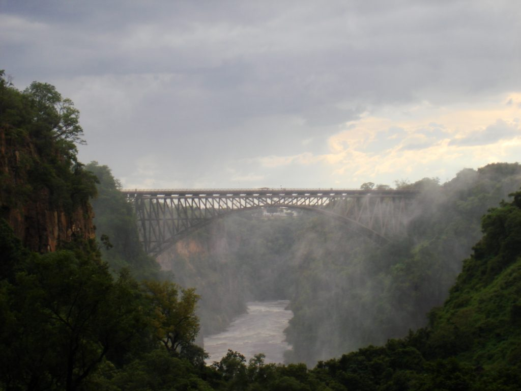 Bridge situated near Victoria Falls